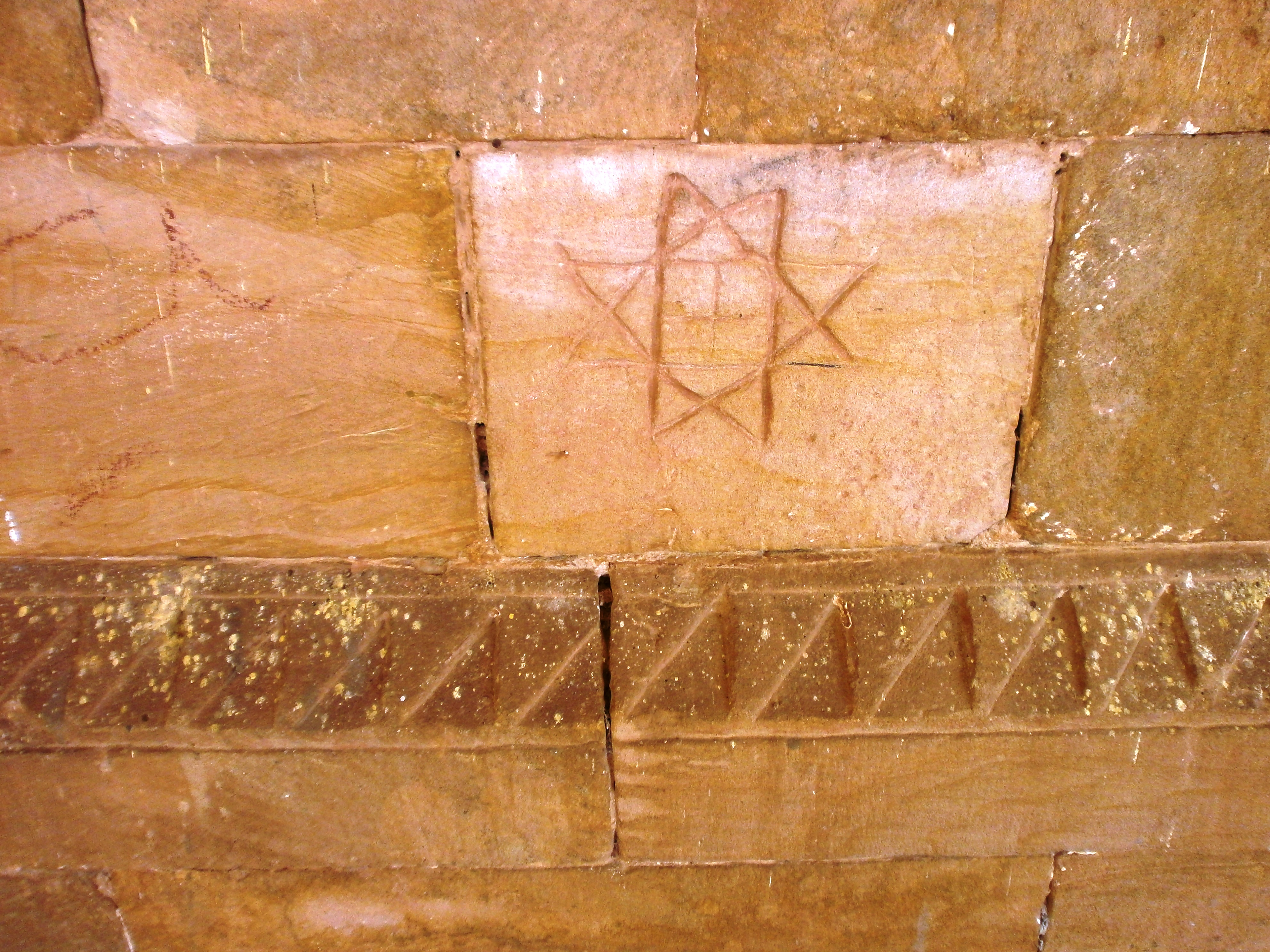 Lugás-Marca de los canteros